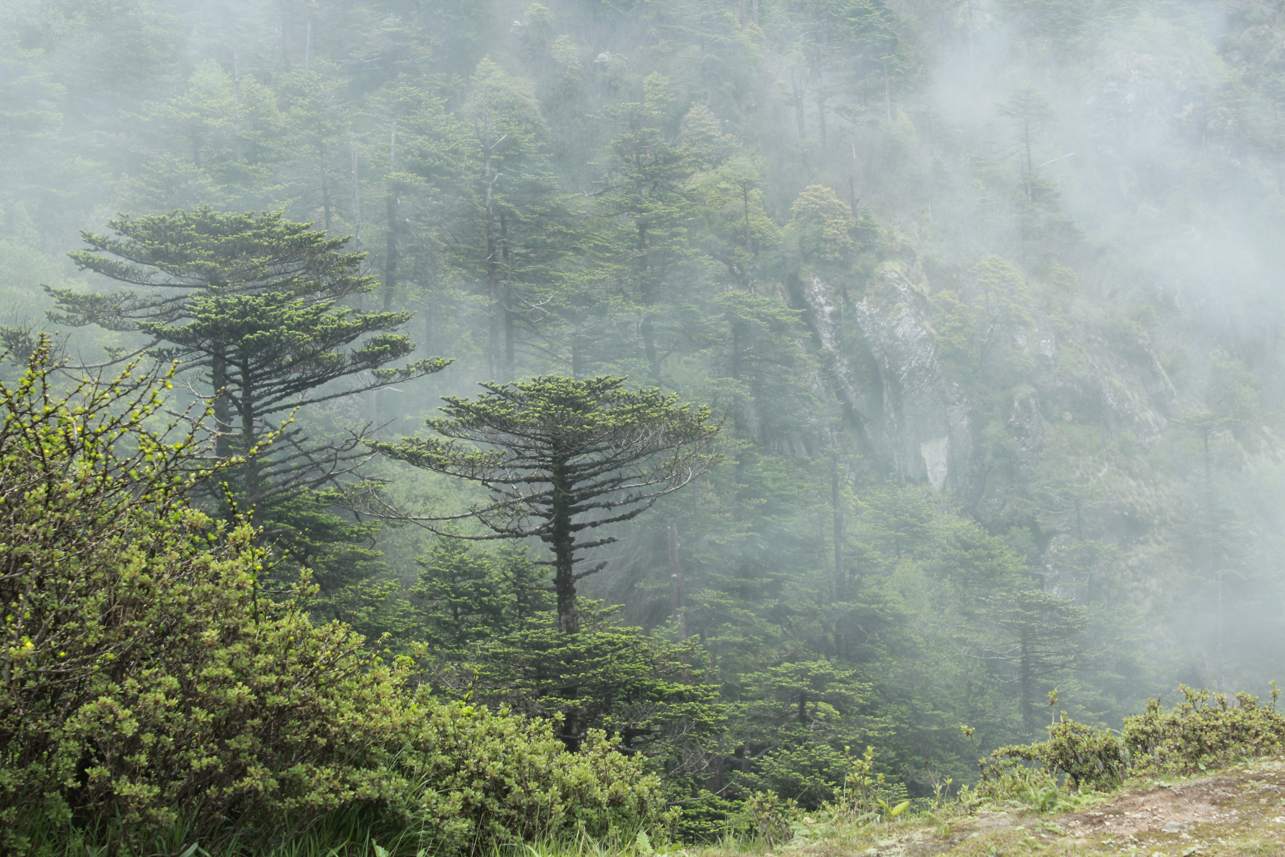 A view on the way to Sandakphu. On the verge of monsoon, visibility used to be a few feet at times due to dense cloud. At such high altitude (3600 m) the forest was consisted mainly of Abies densa (East Himalayan Fir) trees.